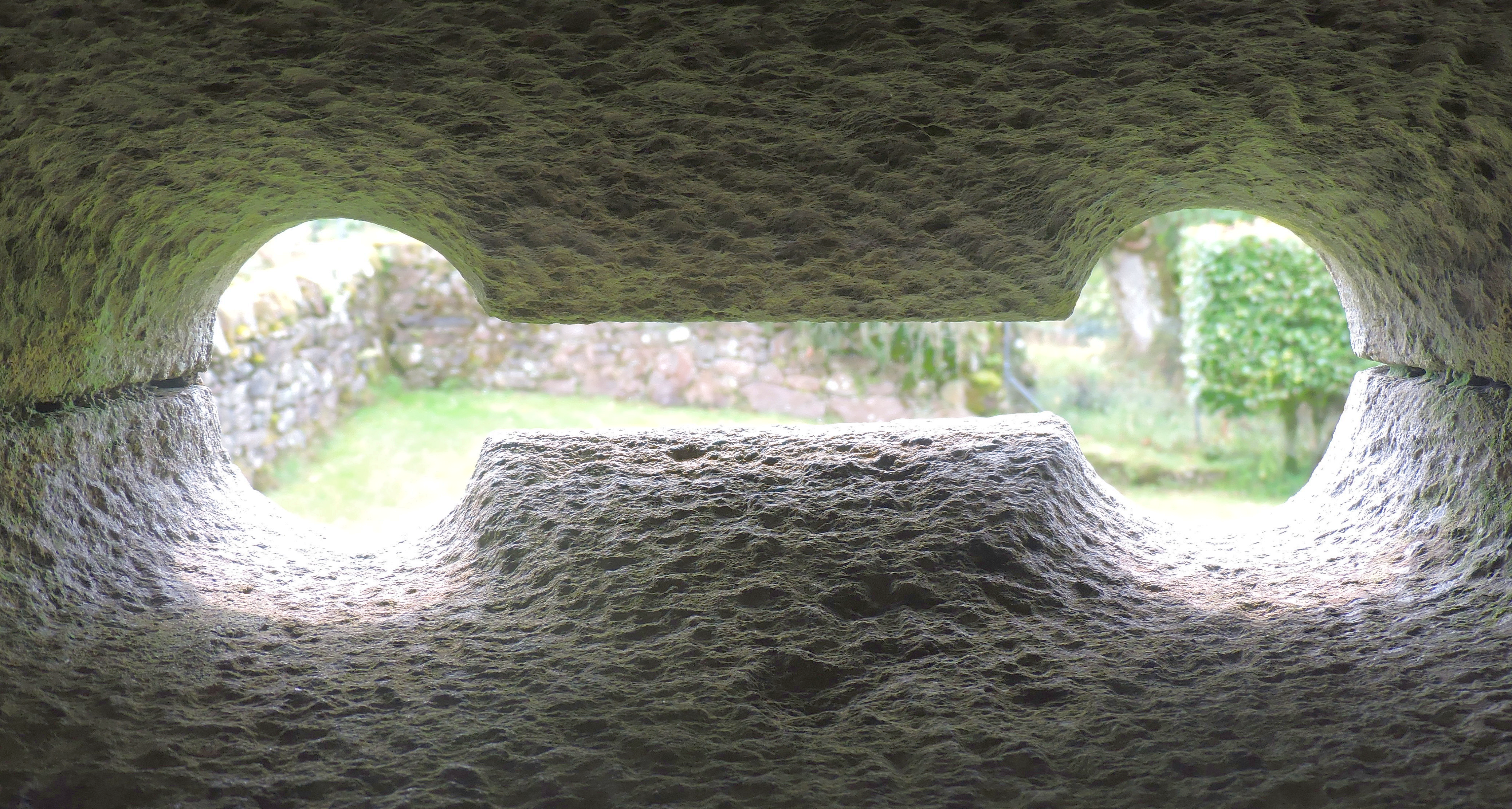 Carnasserie Castle (Scotland): double keyhole embrasure